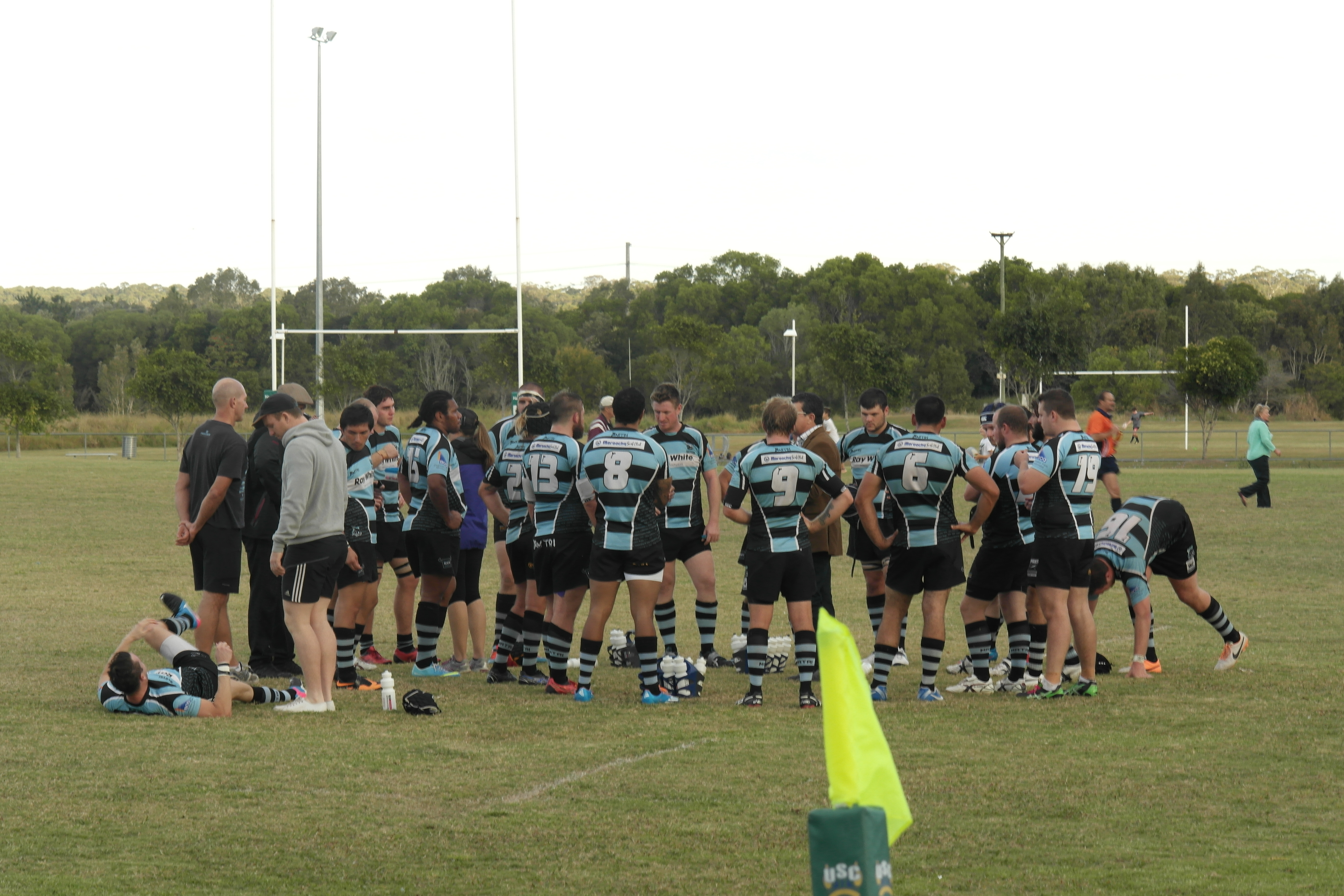 Maroochydore halftime huddle vs University on July 5, 2014.